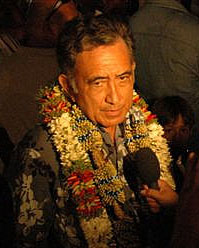 President of French Polynesia Oscar Temaru